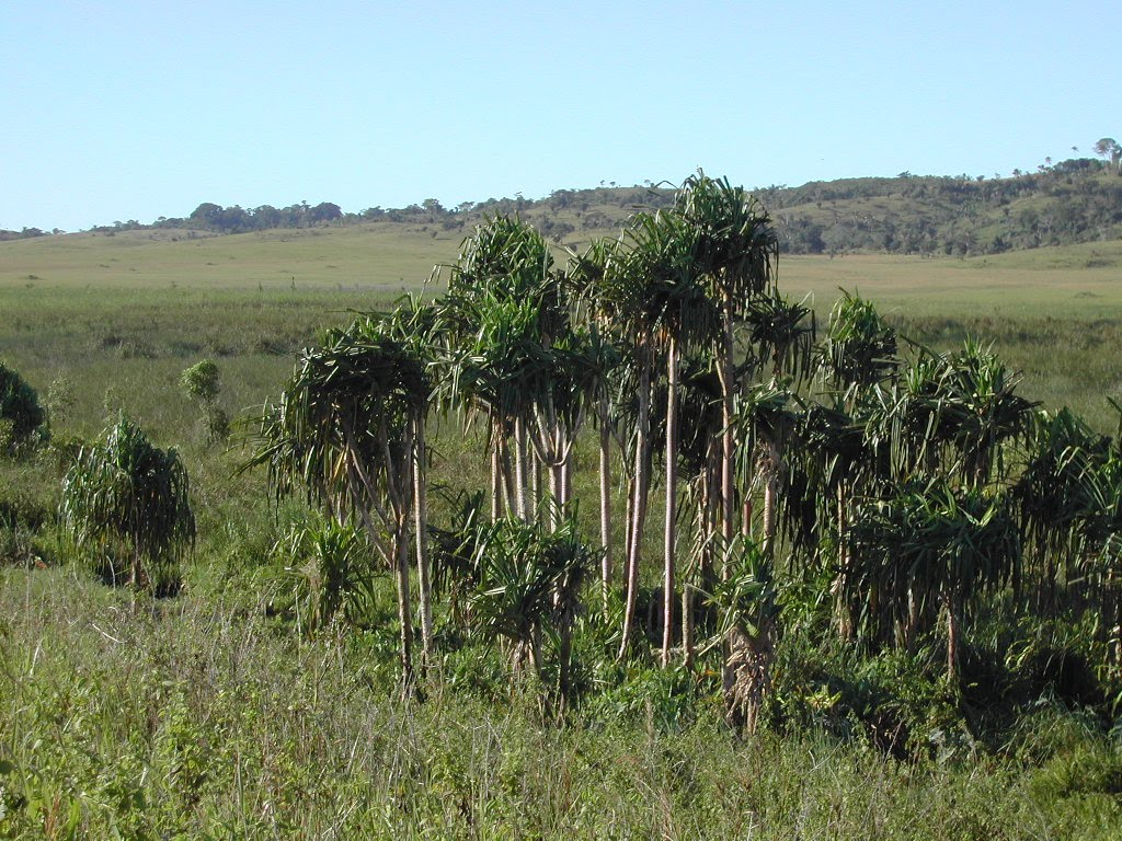 O-swamp' freshwater spring-fed wetland near Los Palos with Typha reedbeds, sedge and some Pandanus 3